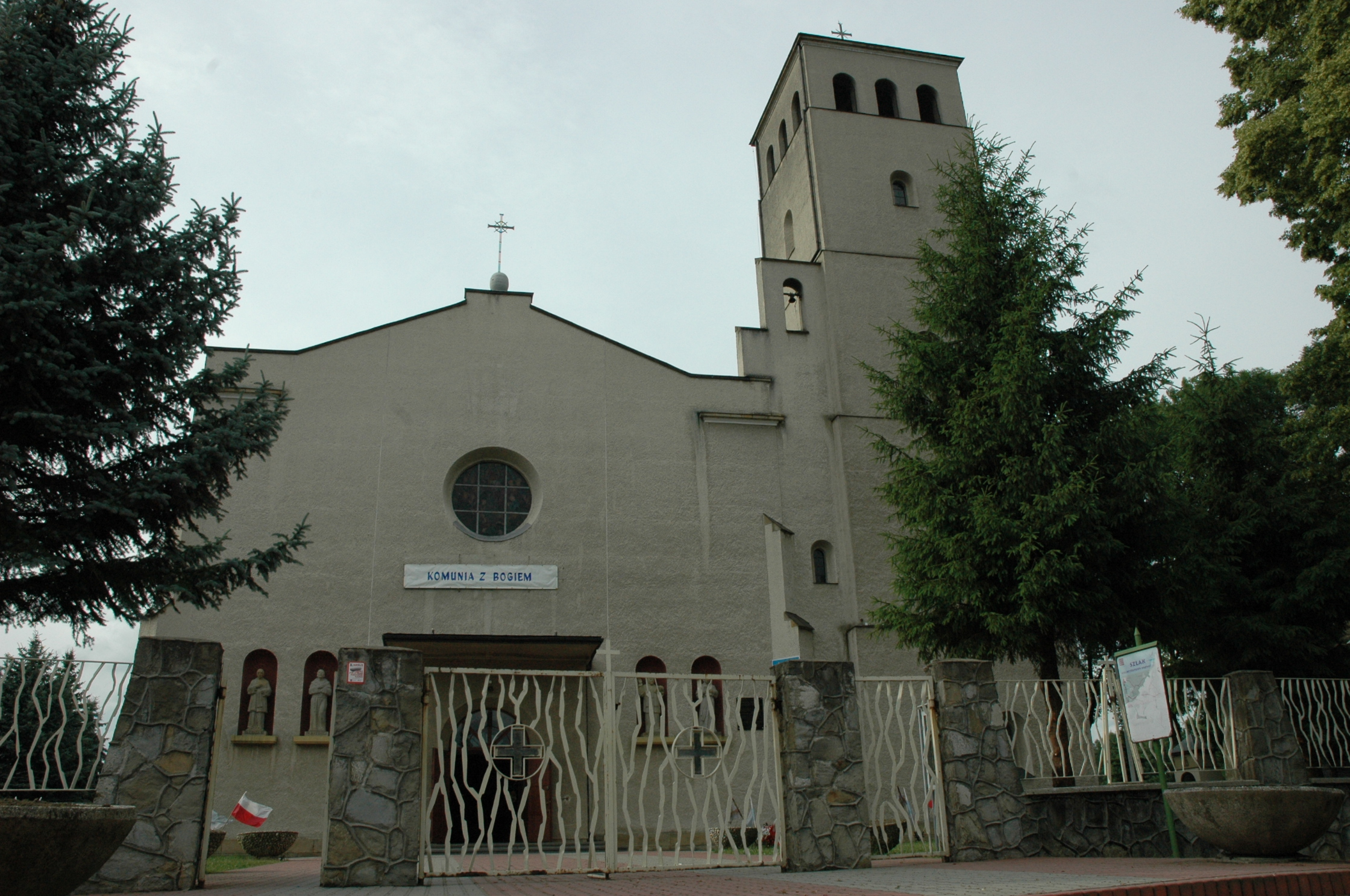 Modern Church of the Assumption of Holy Mary in Haczów